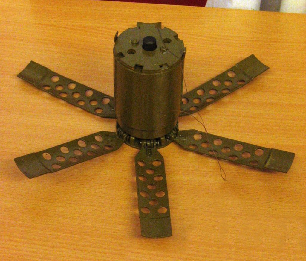 A soviet POM-2S scatterable bounding mine.